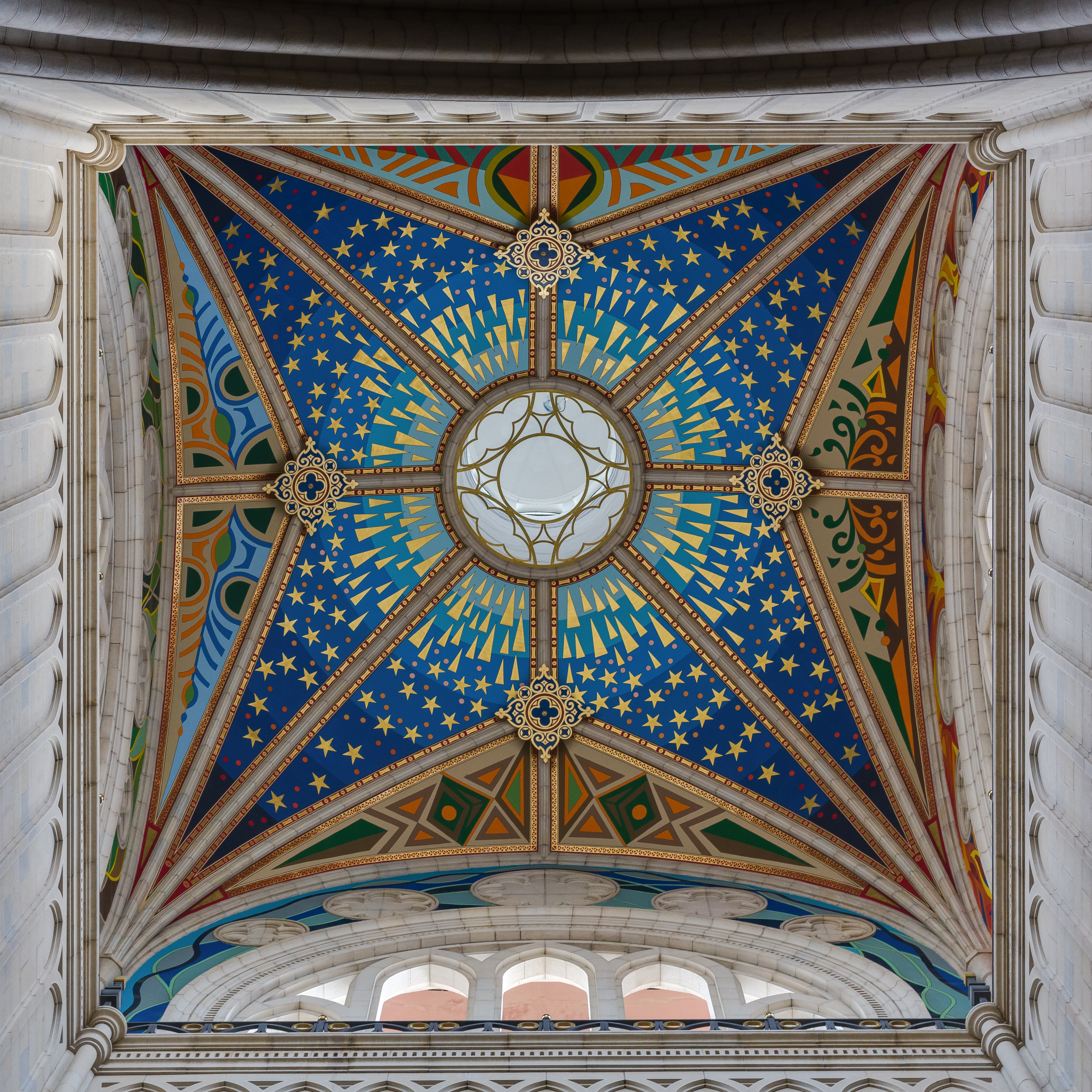 Almudena Cathedral, Madrid, Spain